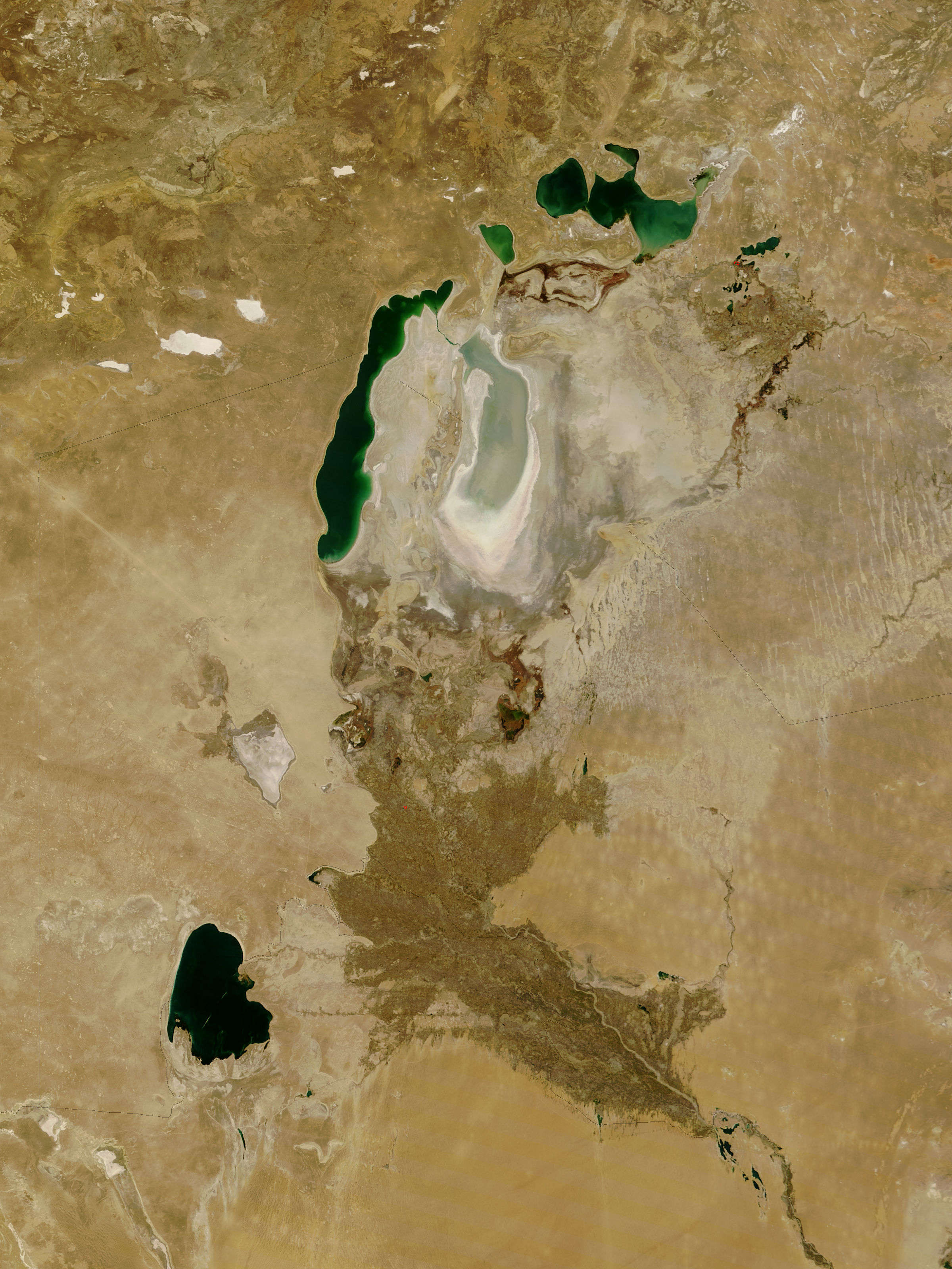 Aral Sea on 05 October 2008